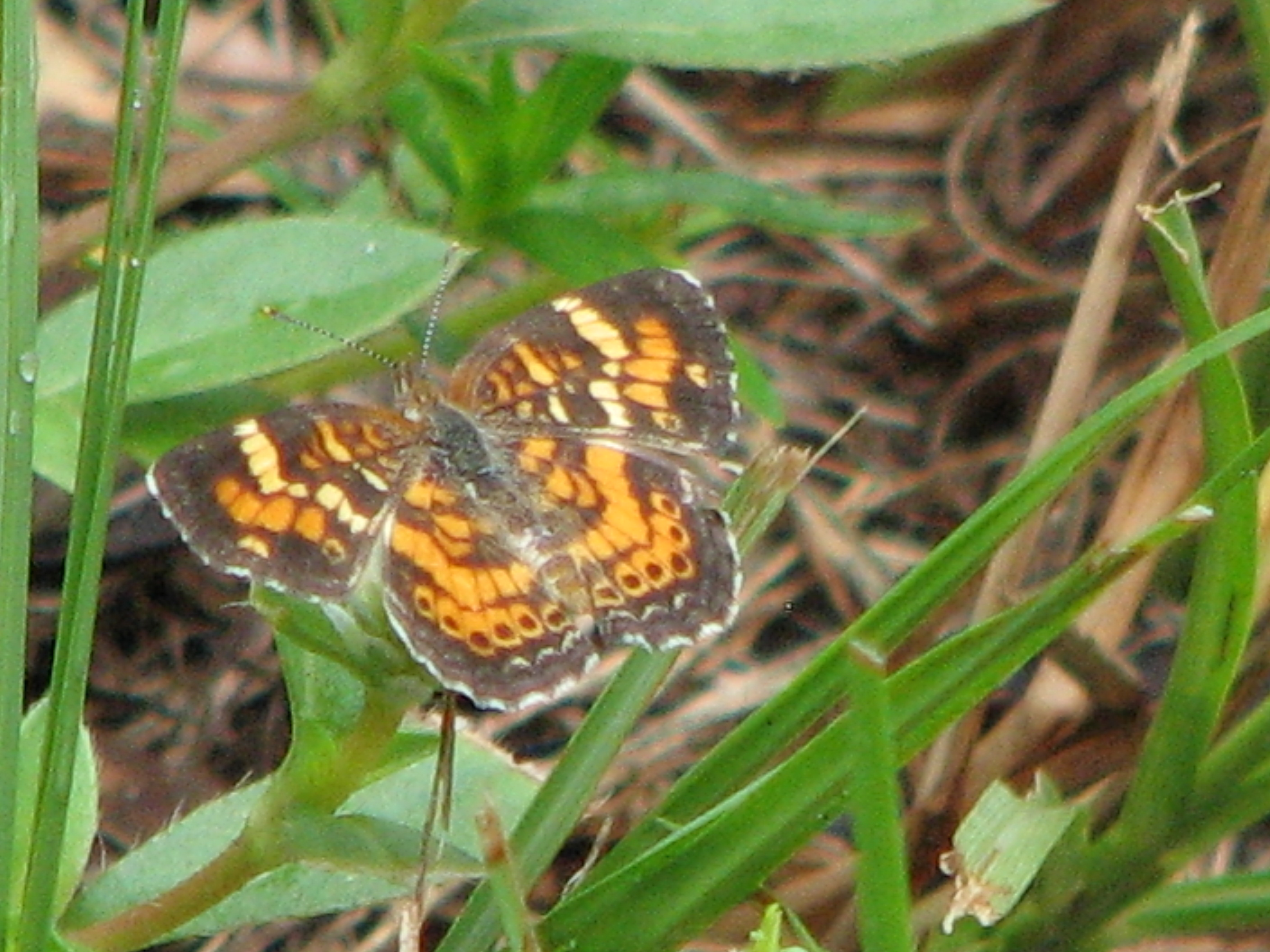 Phyciodes phaon Lake McKethan Nature Trail Withlacoochee State Forest Trailwalker Trail Brooksville, Florida